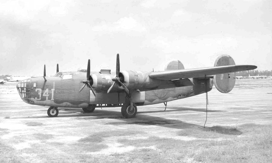 Consolidated B-24E